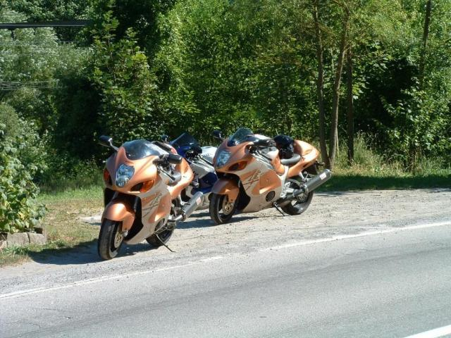 Original release, bronze